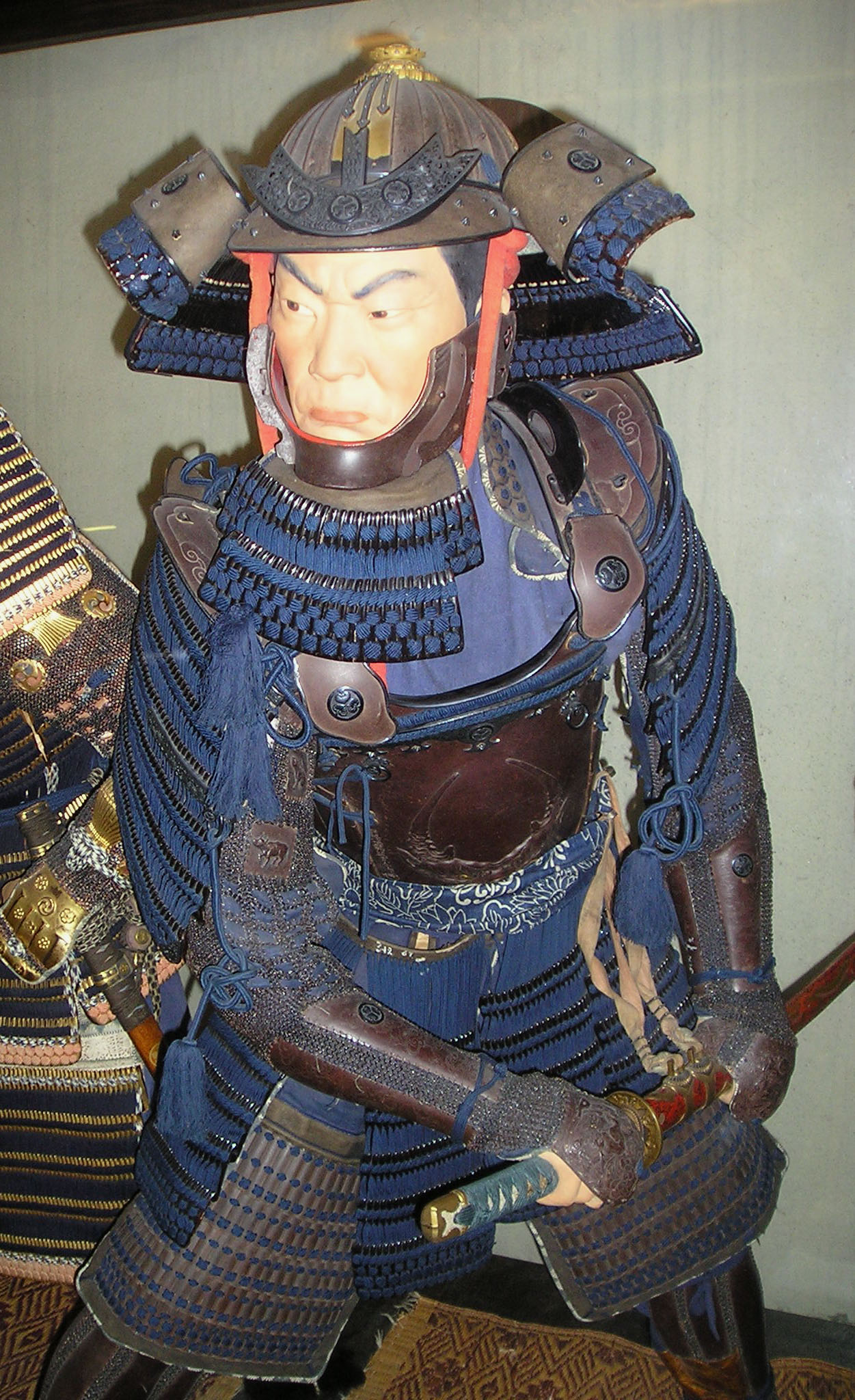 Samurai in Saint-Petersburg Kunstkamera (cabinet of curiosities), Russia